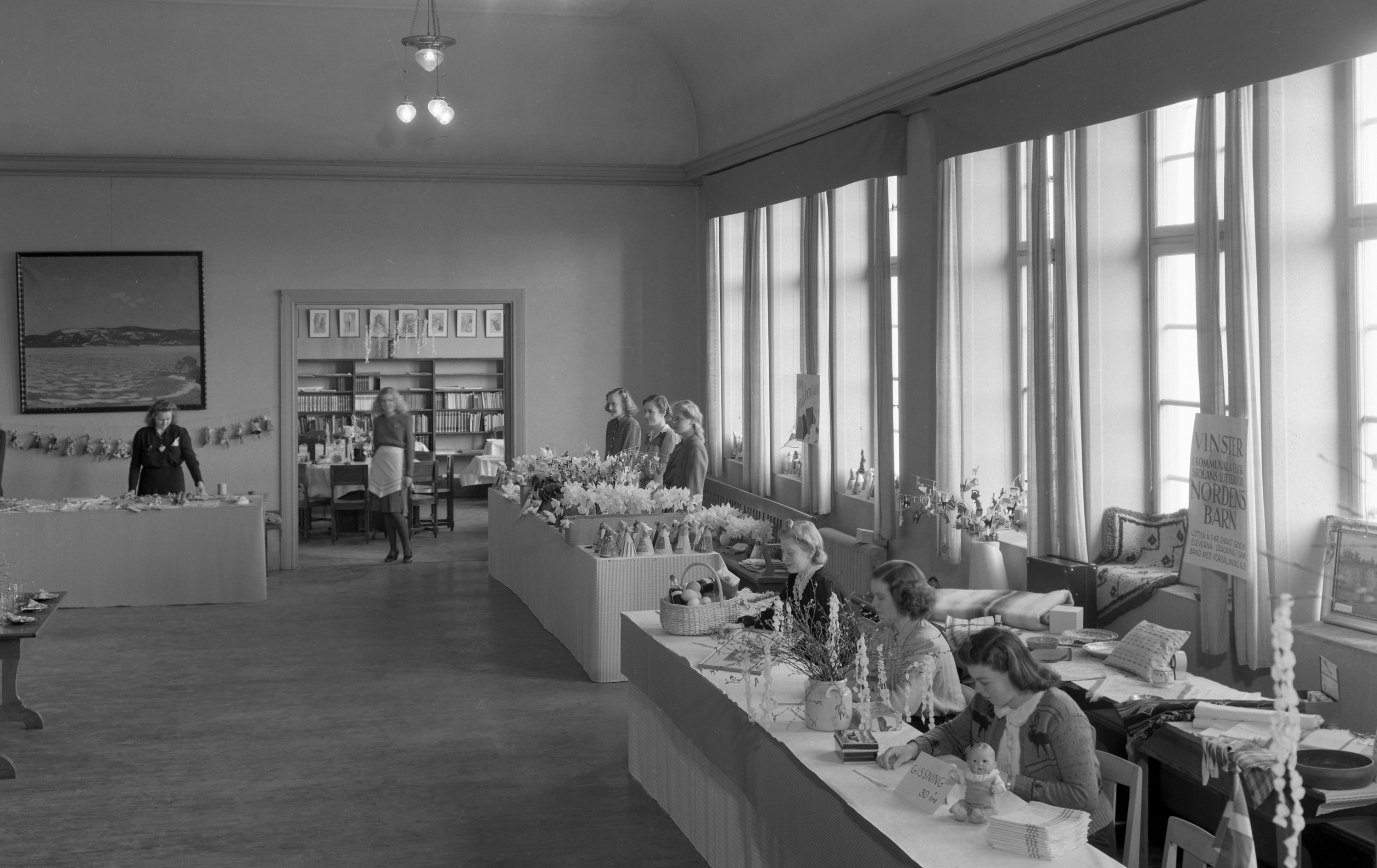 Basar med försäljning och lotterier i påsktider på kommunala flickskolan år 1943.